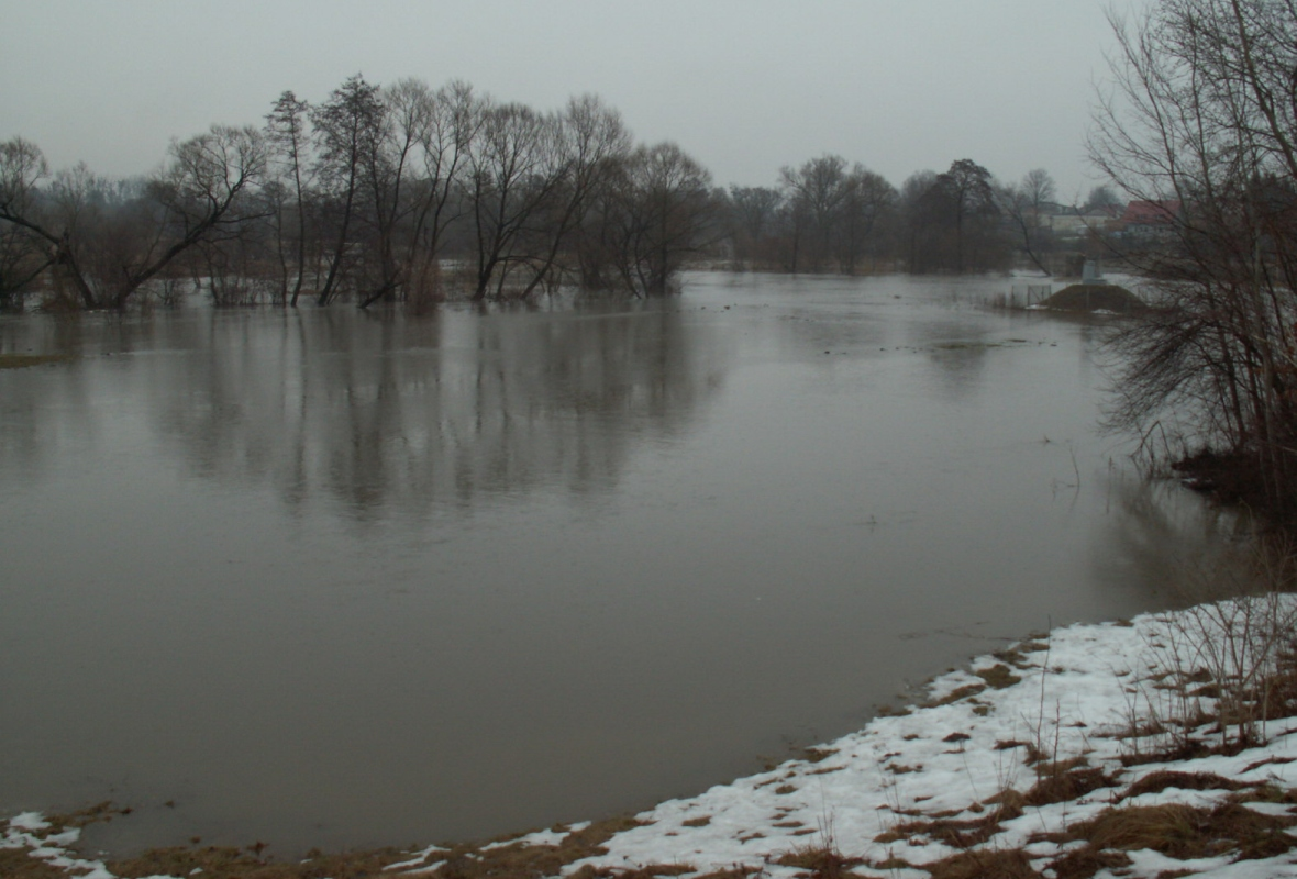 Spring snowmelts on Sanna River; Podkarpacie, Poland